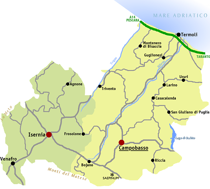 The Italian region Molise Map created by user:Idéfix